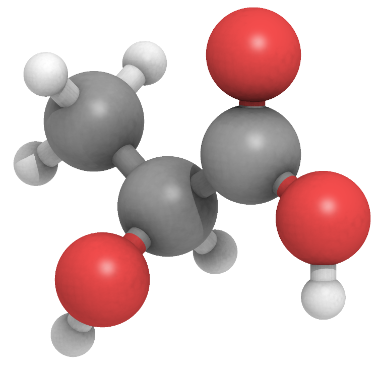 3D model of a lactic acid molecule.